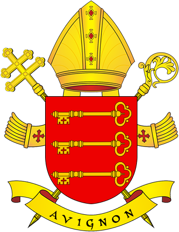 Coat of Arms od archdiocese of Avignon in France.